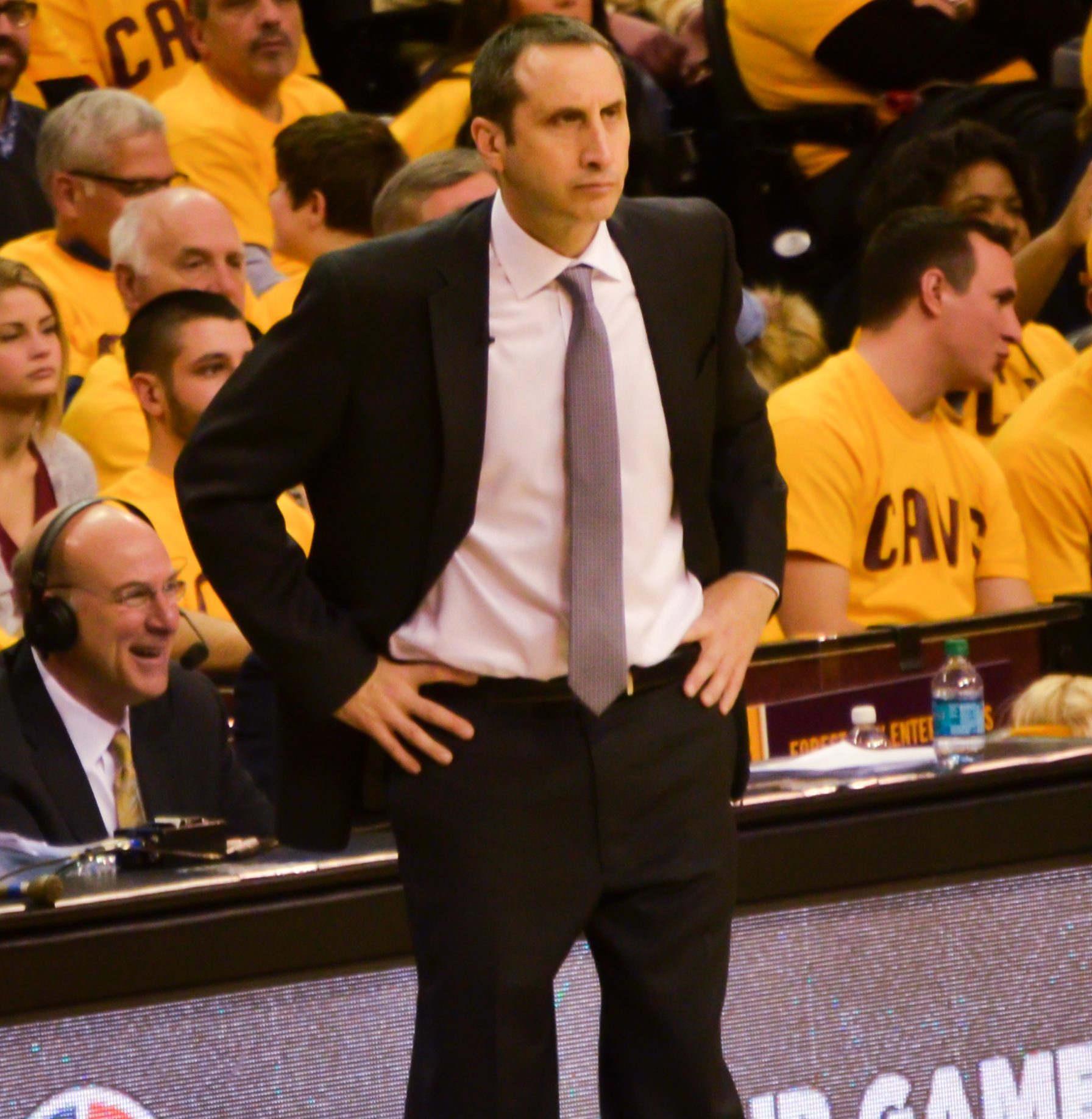 David Blatt as Cavs coach